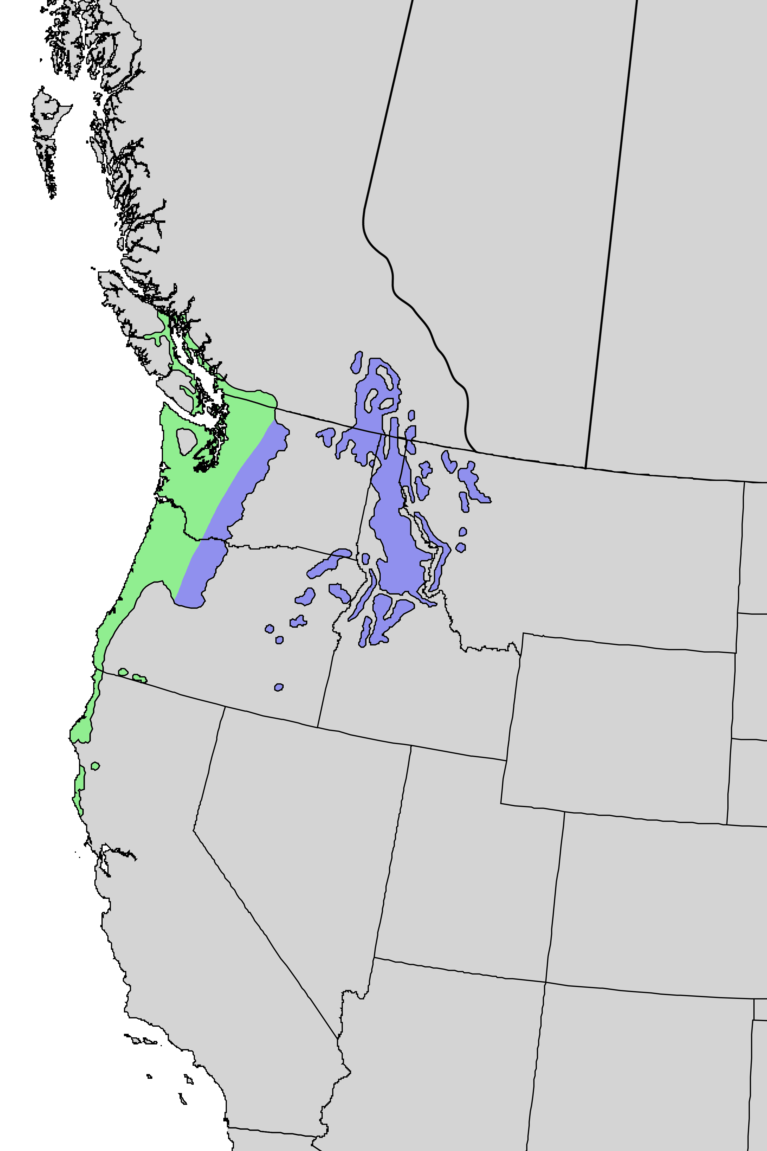 Natural distribution map for Abies grandis (Grand, lowland, white, silver, yellow or stinking fir) - ssp. grandis in green and ssp. idahoensis in blue